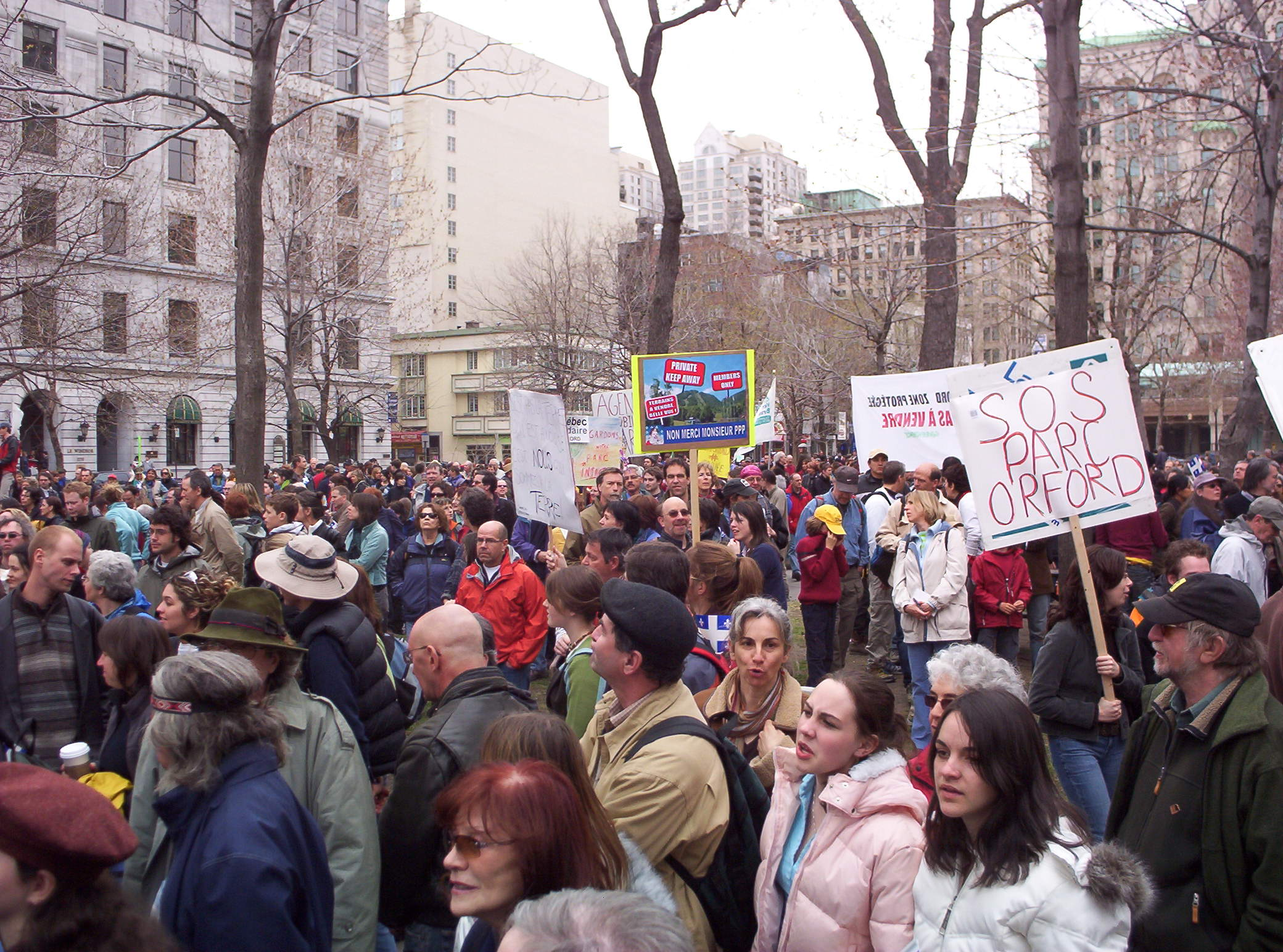 SOS-Mont-Orford demonstration in Montreal, Quebec